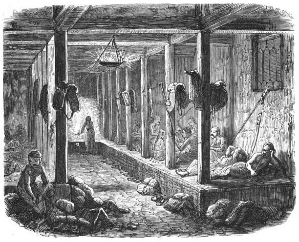 "The interior of an inn". In illustration in H.E.M. James book. It is followed by a couple of pages where he described an inn in the Hunjiang River valley east of Tonghua. in an area that was very much a "frontier" of Chinese settlement. Note a long kang (bed-stove) along the wall, shared by the guests.